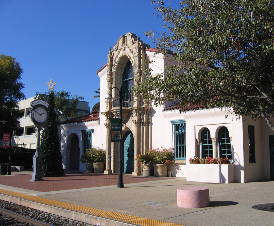 Trackside of Claremont Metrolink station.